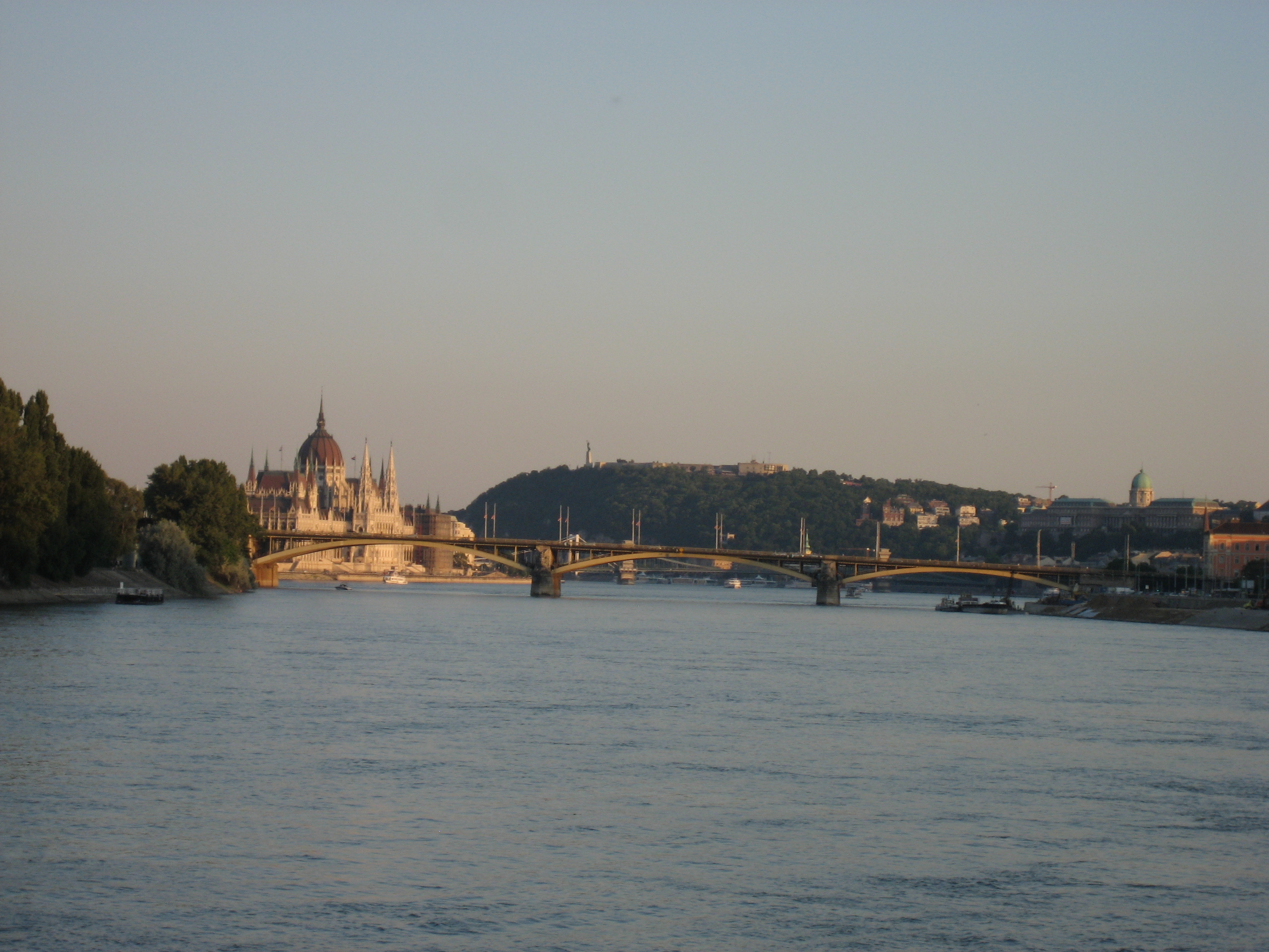 Margret bridge (Margit híd) and Hungarian Parliament Building, Budapest